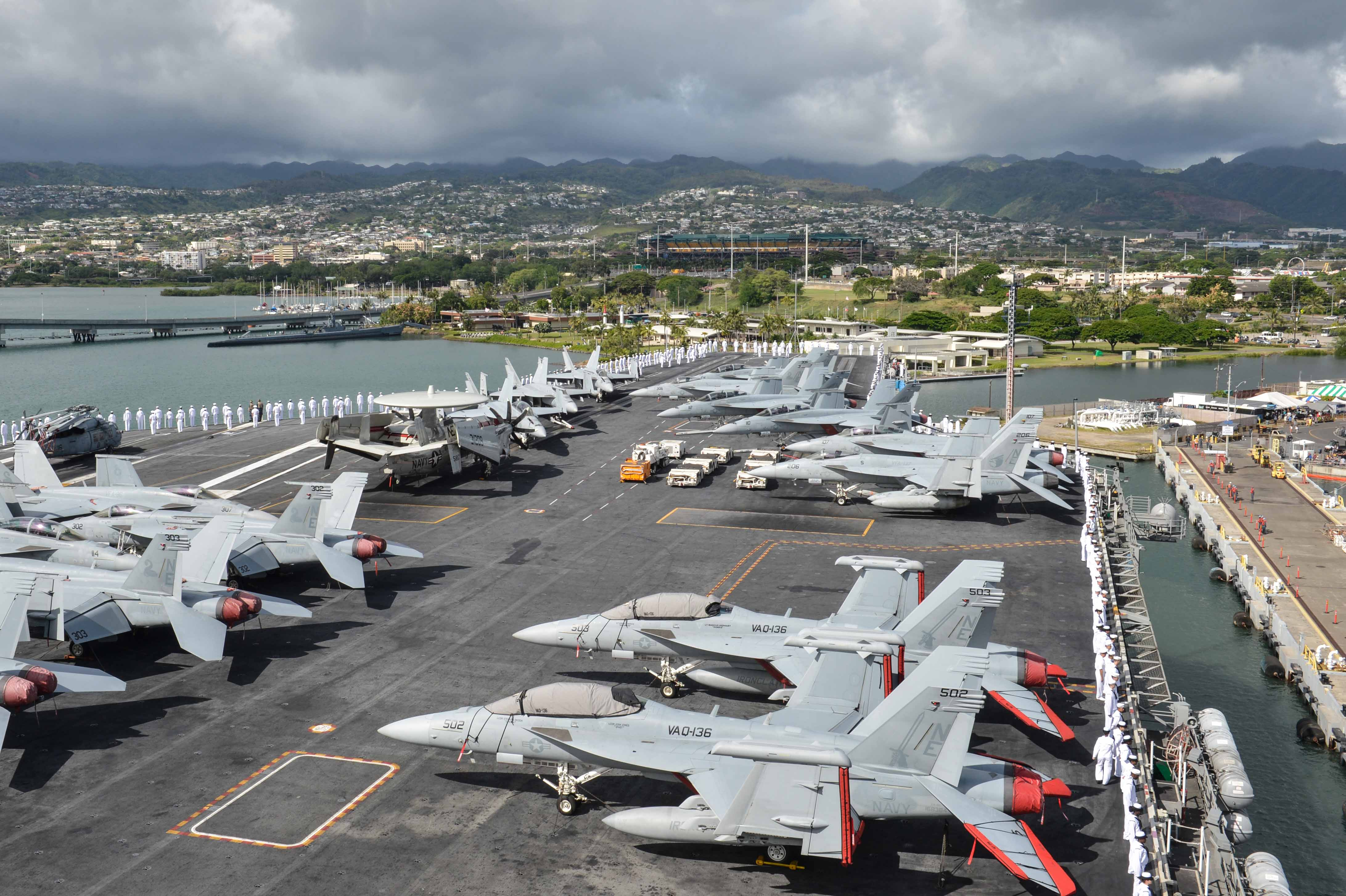 The U.S. Navy aircraft carrier USS Ronald Reagan (CVN-76) moors at Joint Base Pearl Harbor-Hickam. Ronald Reagan was in Hawaii for Rim of the Pacific (RIMPAC) 2014. On deck are various aircraft of Carrier Air Wing 2 (CVW-2). Twenty-two nations, more than 40 ships and submarines, more than 200 aircraft and 25,000 personnel were participating in the biennial RIMPAC exercise from 26 June to 1 August 2014. RIMPAC took place in and around the Hawaiian Islands.